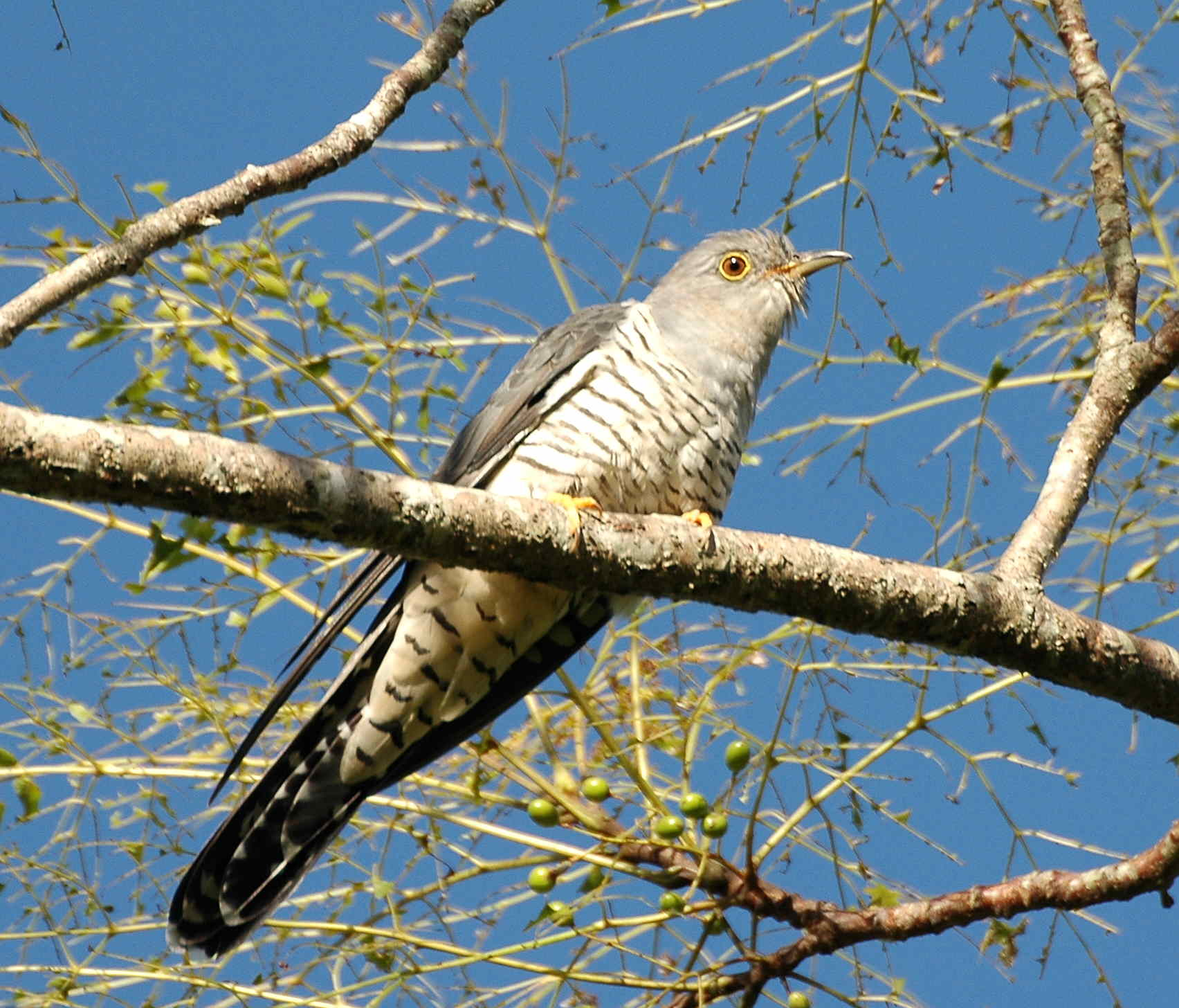 Oriental Cuckoo Cuculus optatus. Maiala NP, SE Queensland, Australia.